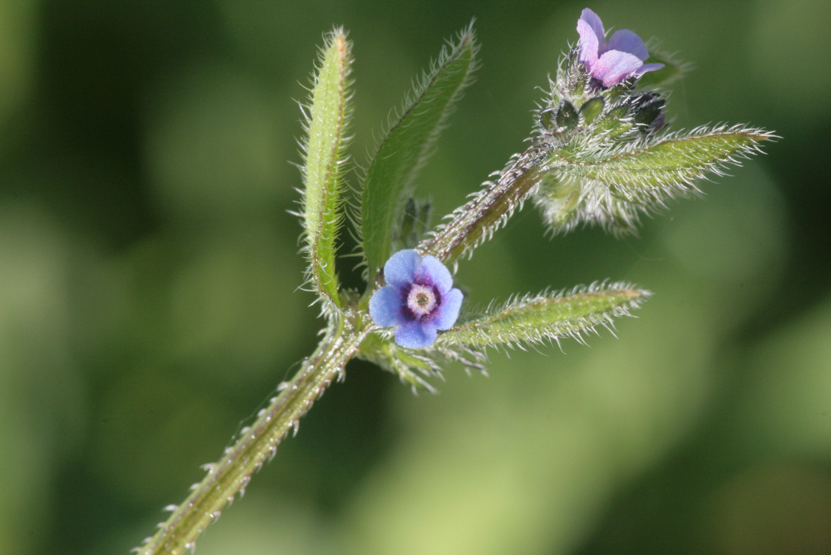 Asperugo procumbens